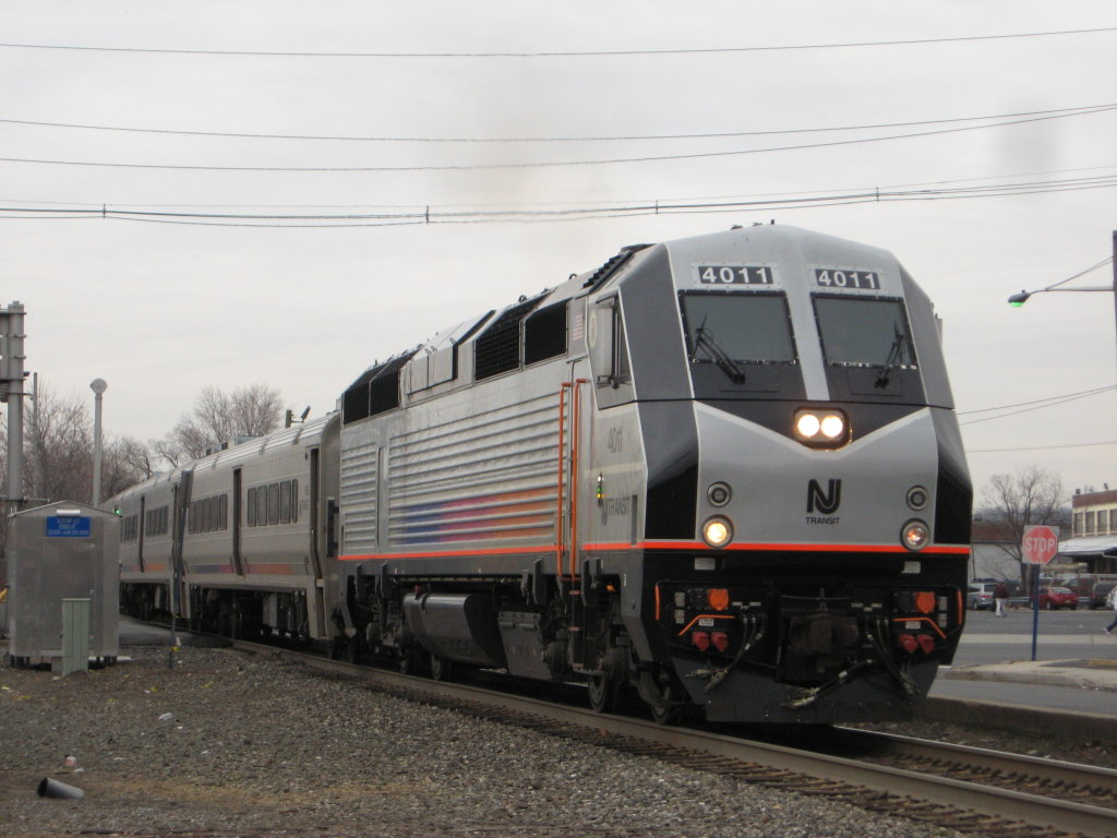 Train #1651 leaves Hackensack-Essex Street, bound for North Hackensack.